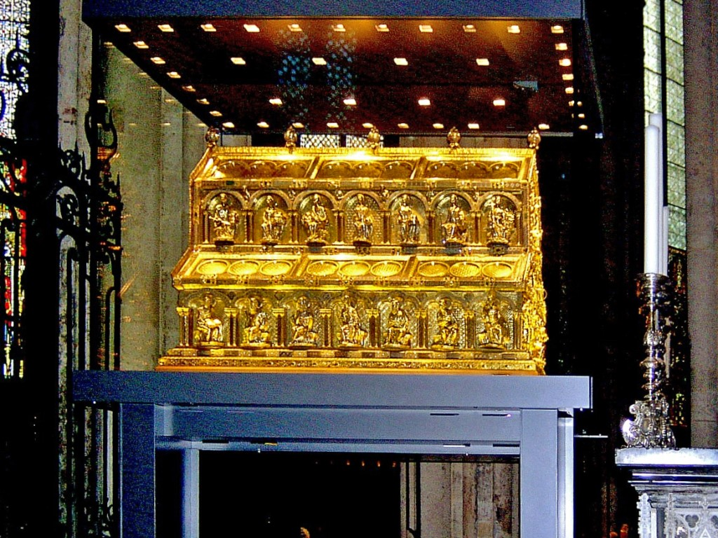 Shrine of the three Magi, Cologne cathedral, Germany